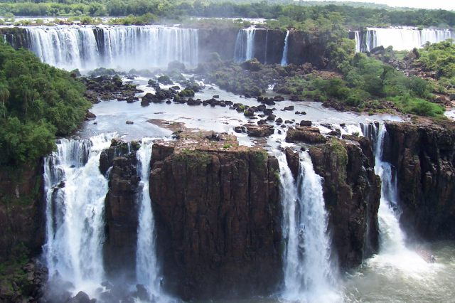 Iguazu Falls, in Misiones (Argentina).